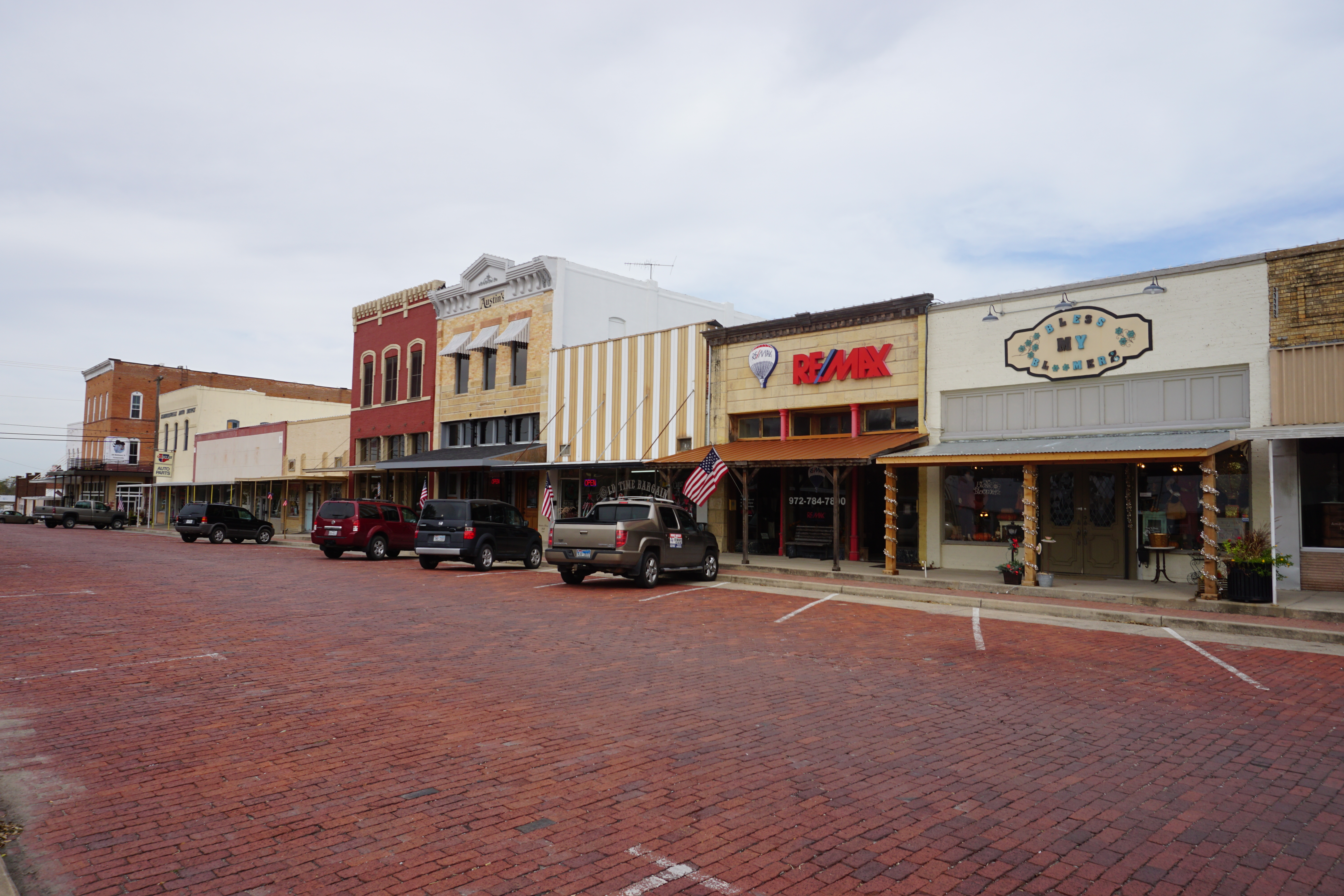 McKinney Street in Farmersville, Texas (United States).